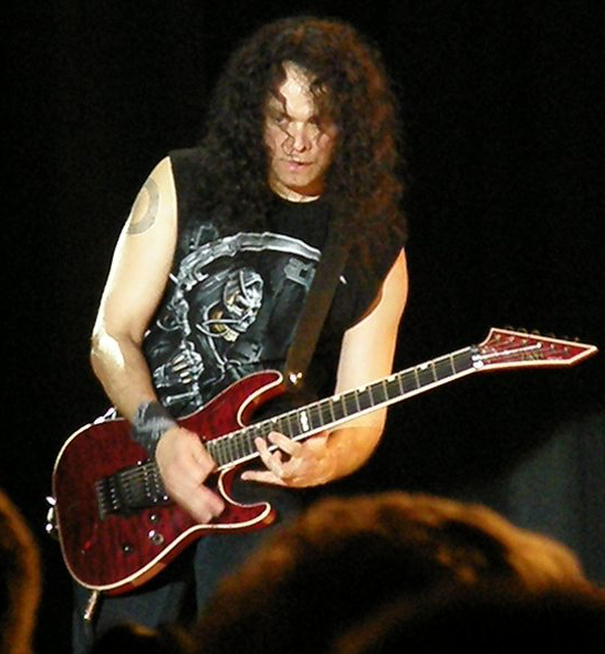 Sergey Popov, guitarist from heavy metal band Aria, performing at a show in Vladivostok